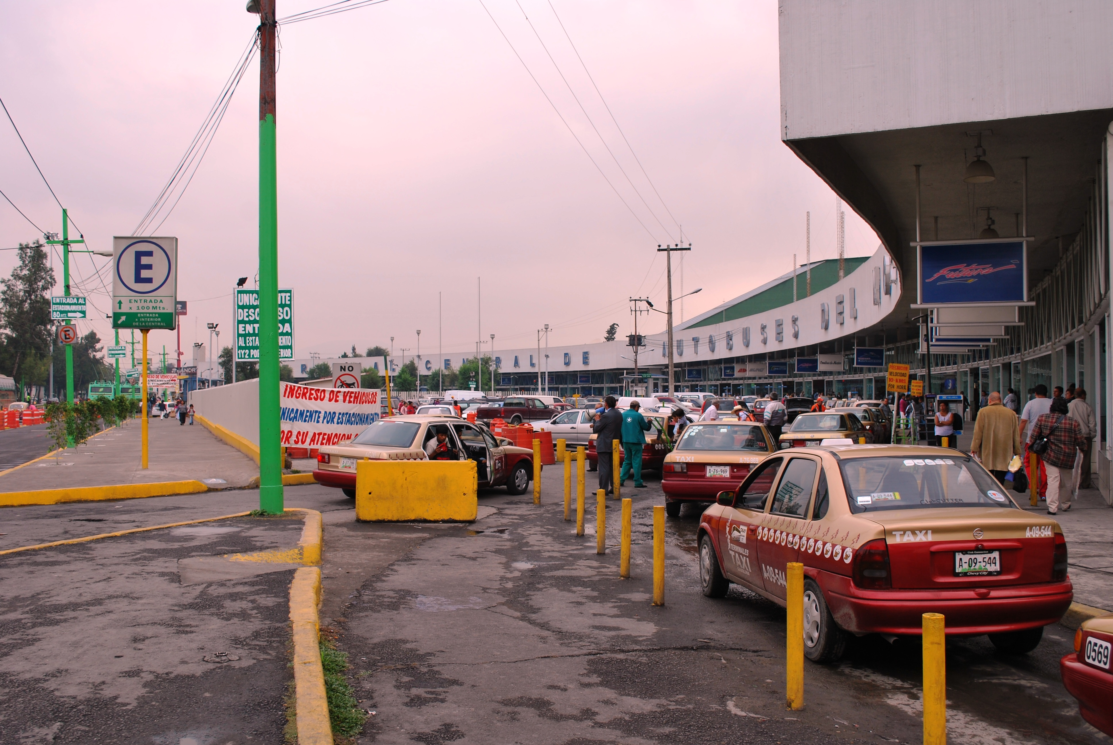 Facade of the Terminal del Norte on Eje Central in Mexico City